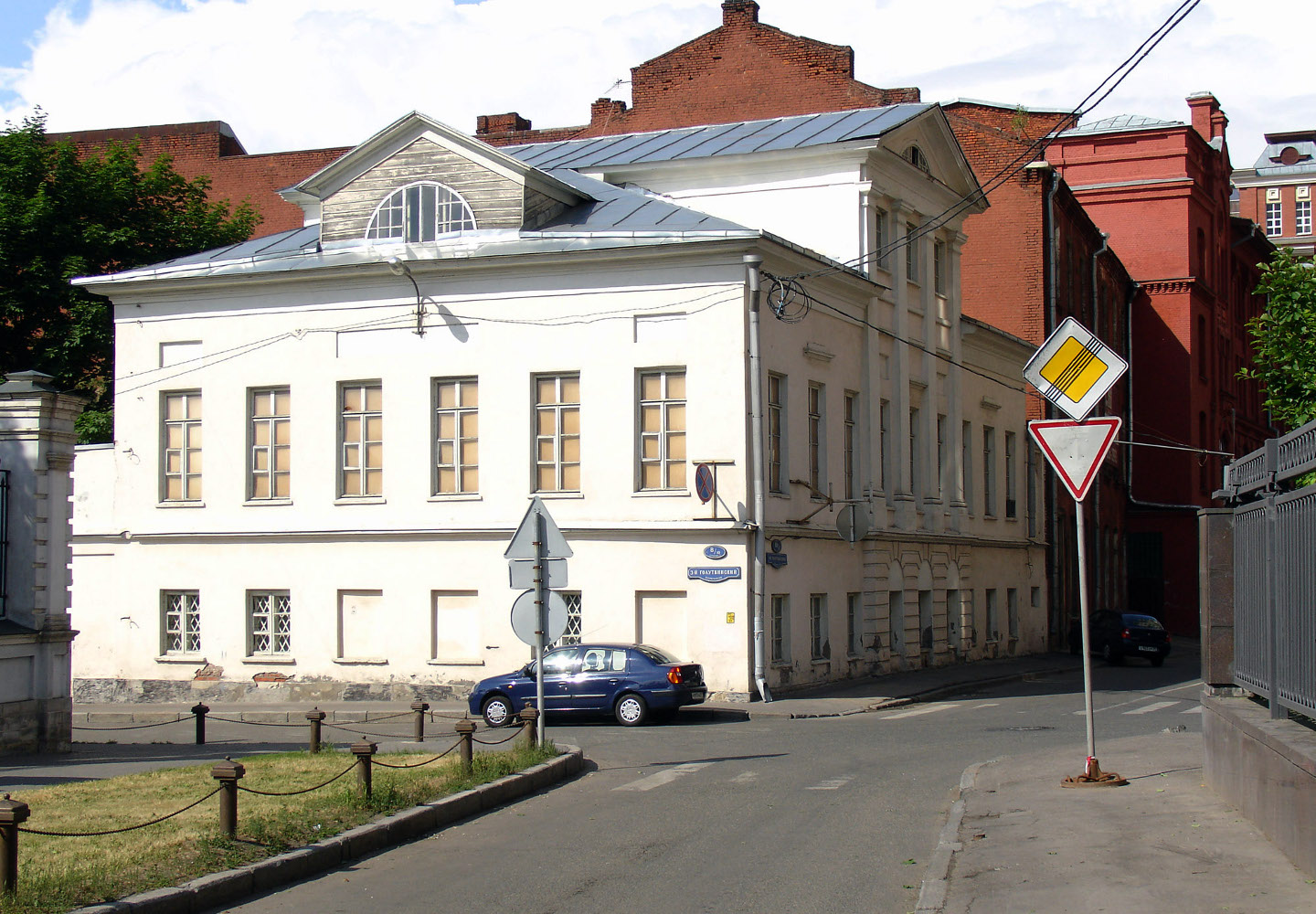 Corner of 1st and 3rd Golutvinsky Lanes, Moscow.